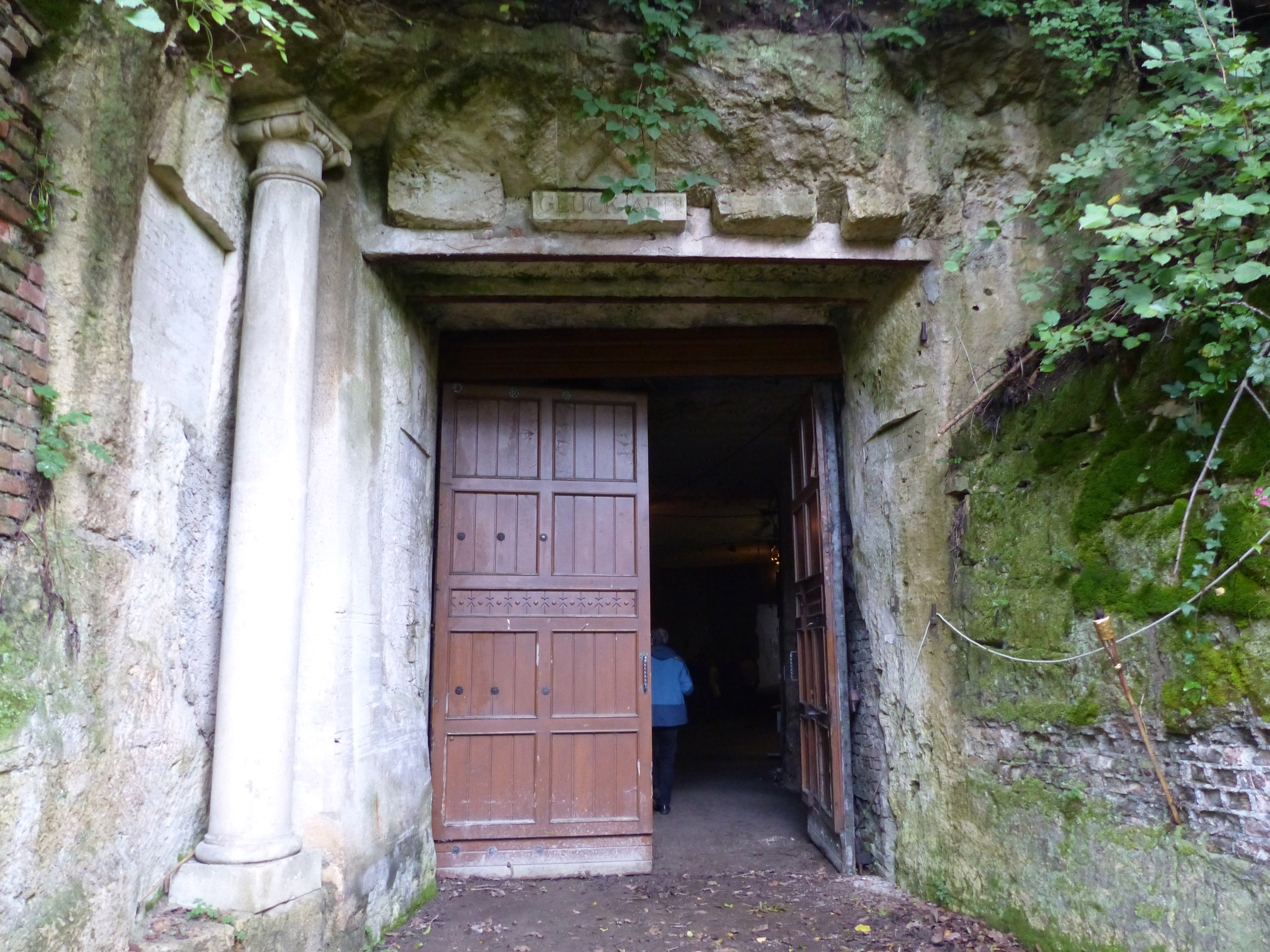 Römersteinbruch Aflenz, Eingang